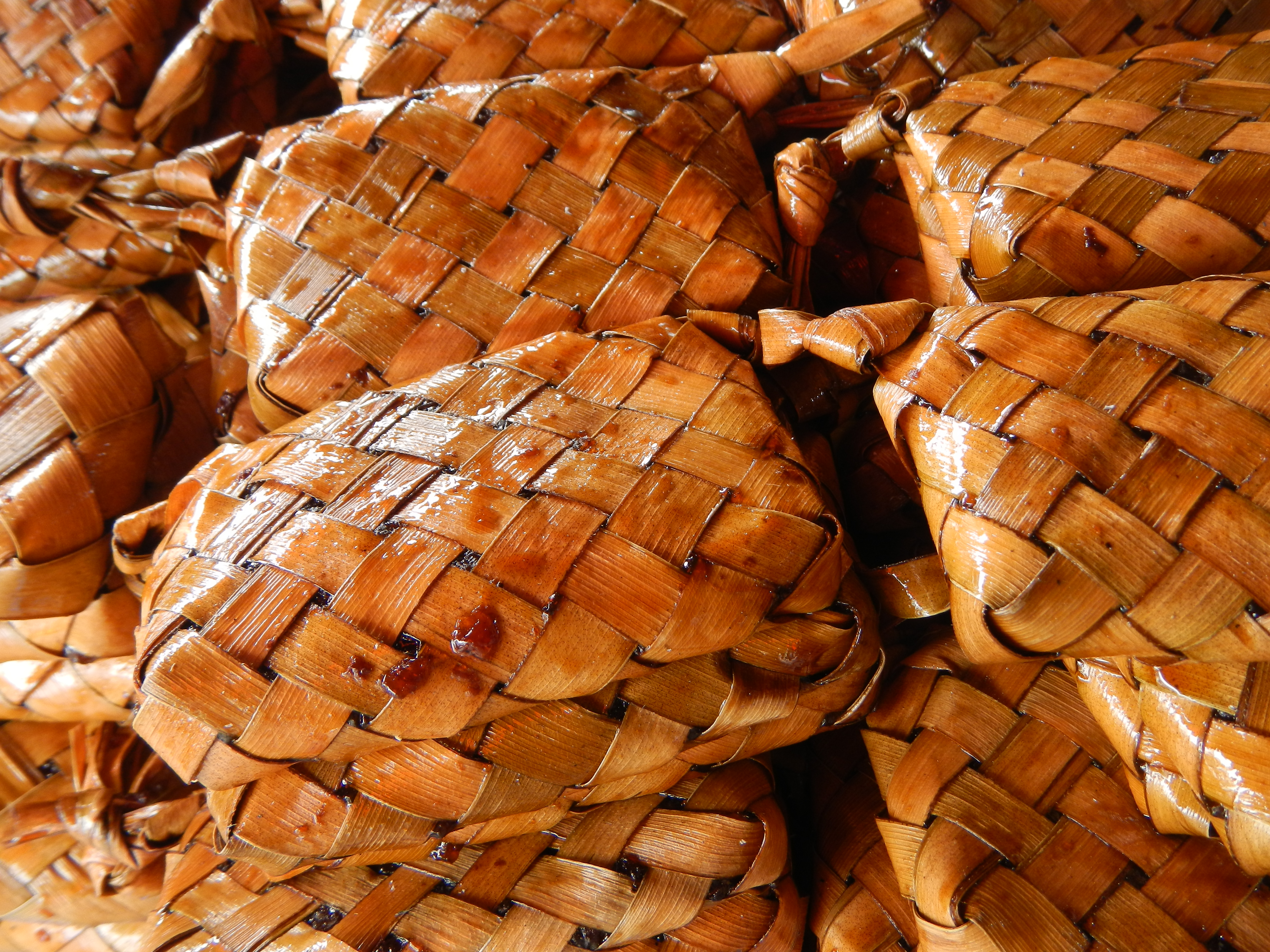 Patupat (a rice delicacy) These days, when Filipinos hear the word patupat they think of the Ilocano rice delicacy that is wrapped in palm leaves, sometimes banana leaves. The resulting shape is sort of like a large cube. The patupat container is prepared by weaving the leaves to produce a basket with one end open so that you can half-fill it with uncooked malagkit (glutinous or sticky) rice. The basket is then secured close with a knot. Sometimes, the leaves are woven in such a way that a strip of leaf is left hanging out. That strip of leaf is what you hold as you place the patupat in the cooking pot and later hang it up in bunches. [1]